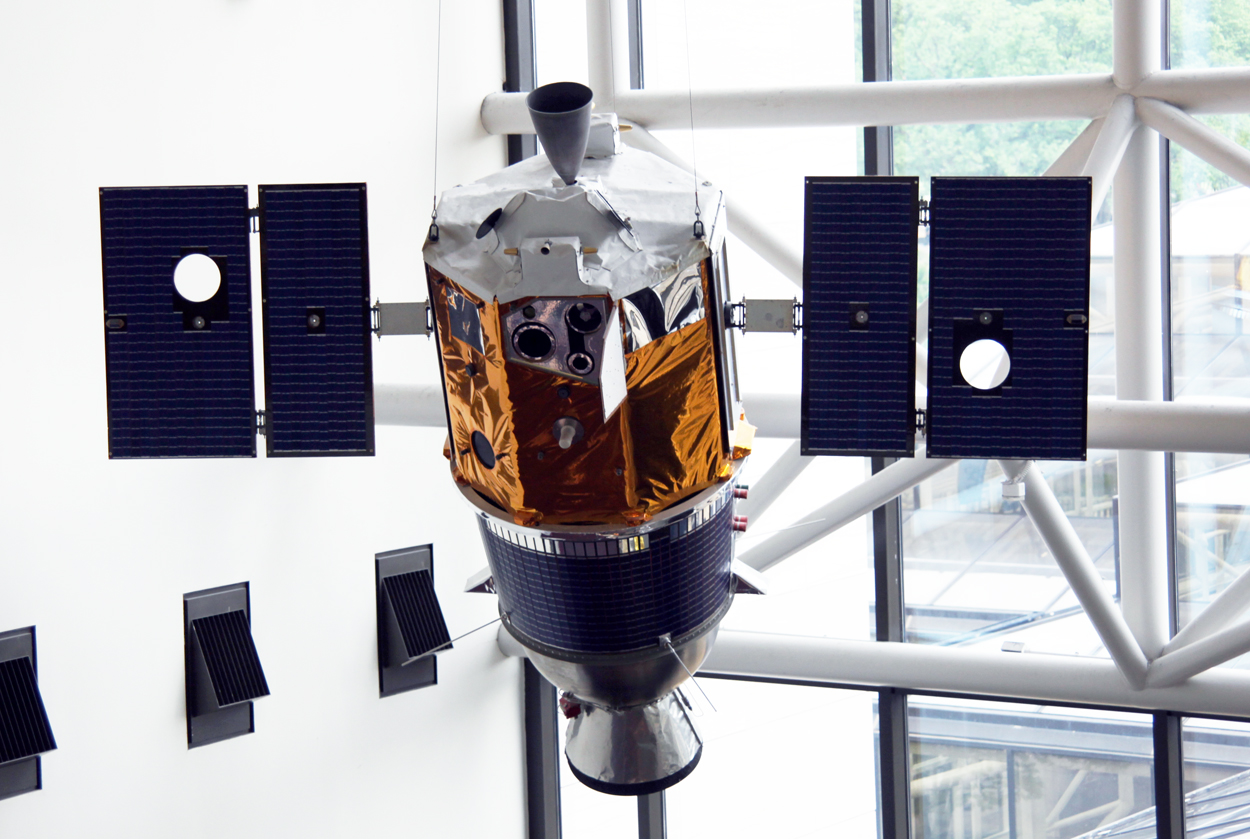 An engineering backup of the Clementine lunar and asteroid orbiter on display in the Smithsonian Air and Space Museum in Washington, D.C. Its official name is the the Deep Space Program Science Experiment (DSPSE), but it was nicknamed Clementine because after its mission was over it was intended to be "lost and gone forever". It was jointly funded by the "Star Wars" missile defense initiative and NASA and launched in January 1994. Clementine carried a variety of instruments designed to measure the lunar surface in visible, ultraviolet, and infrared light. It also had laser ranging altimetry radar, gravimetry instruments (changing gravity over the Moon means heavier elements are below), and charged particle measurements. Lunar mapping too two months, during which time Clementine slowly made 300 orbits of the Moon. Clementine was then supposed to fly to the near-Earth asteroid 1620 Geographos. During this time, it would fly around the Earth twice, testing how well its radiation-hardened instruments held up. These flybys would also build up speed, allowing it to come within 60 miles of Geographis. Unfortunately, on May 7, 1994, one of Clementine's attitude thrusters did not turn off. It burned up the spacecraft's entire fuel supply and caused Clementine to enter a fast spin. Clementine was put into a geosynchronous orbit and passed through the Van Allen radiation belts to test its radiation shielding. Clementine finally failed in June 1994.